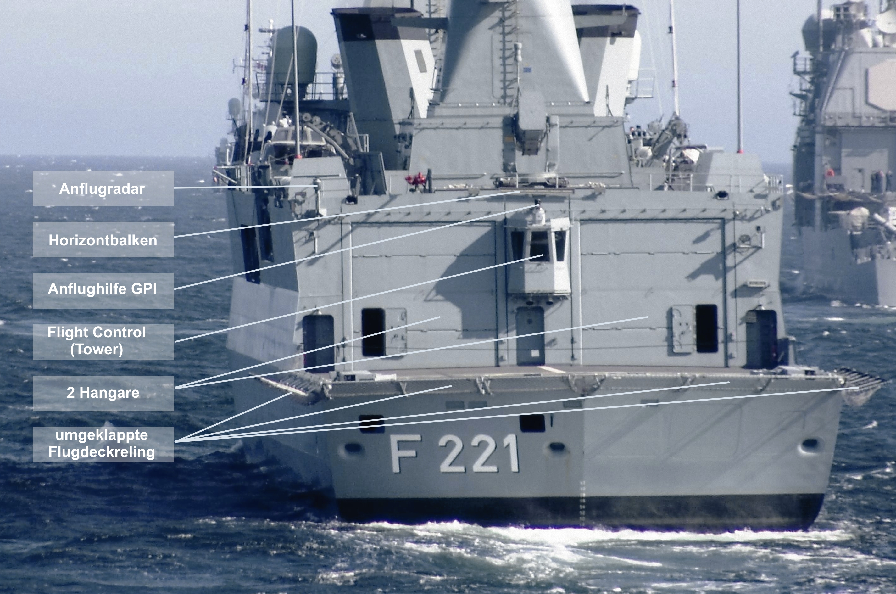 Flight deck of German Frigate FFG Hessen (F 221)